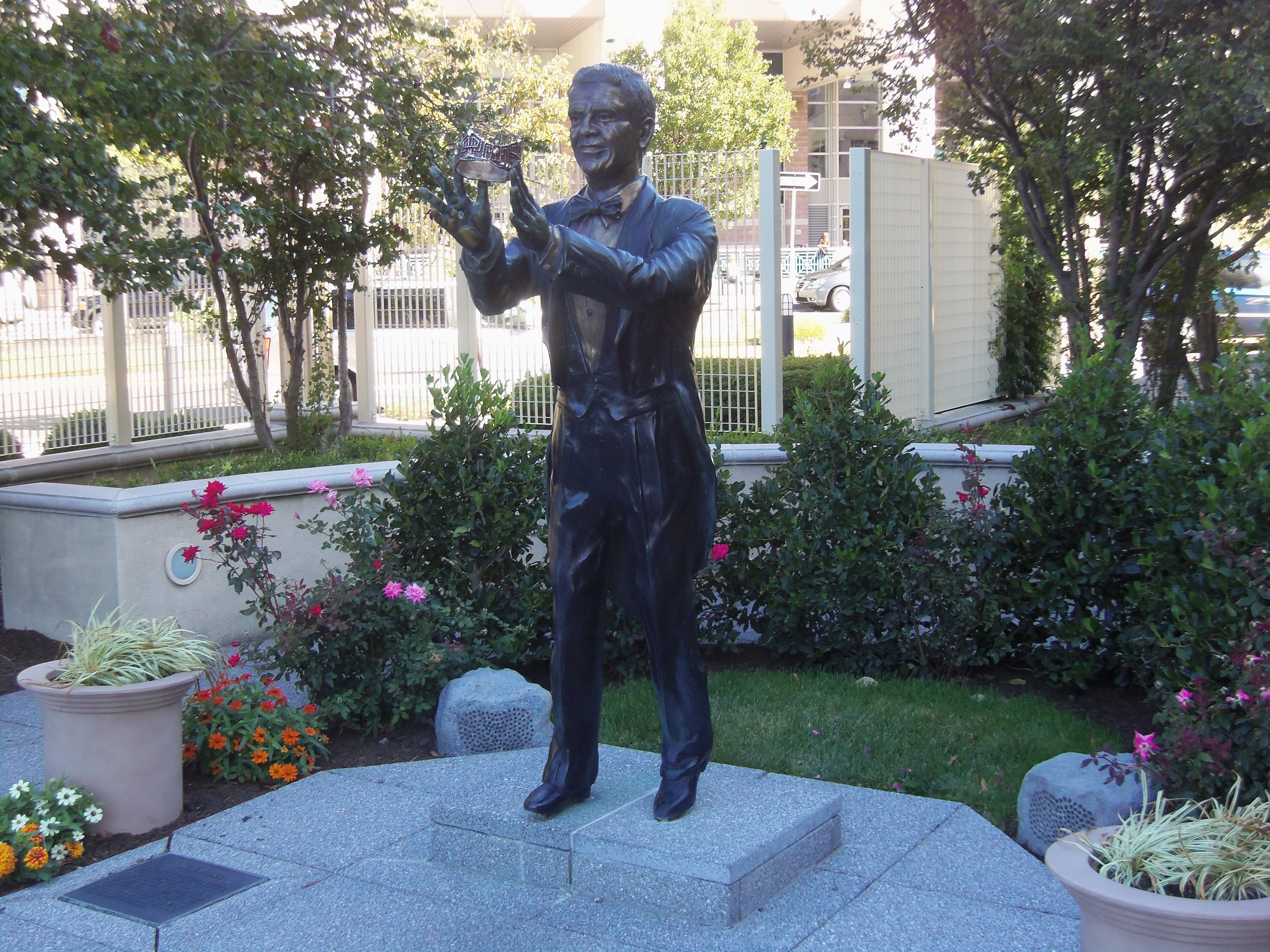 A statue of Bert Parks with a Miss America crown in front of the Sheraton Atlantic City Convention Center. When a person stands below the crown a recording of Bert Parks singing "There She is Miss America" plays.